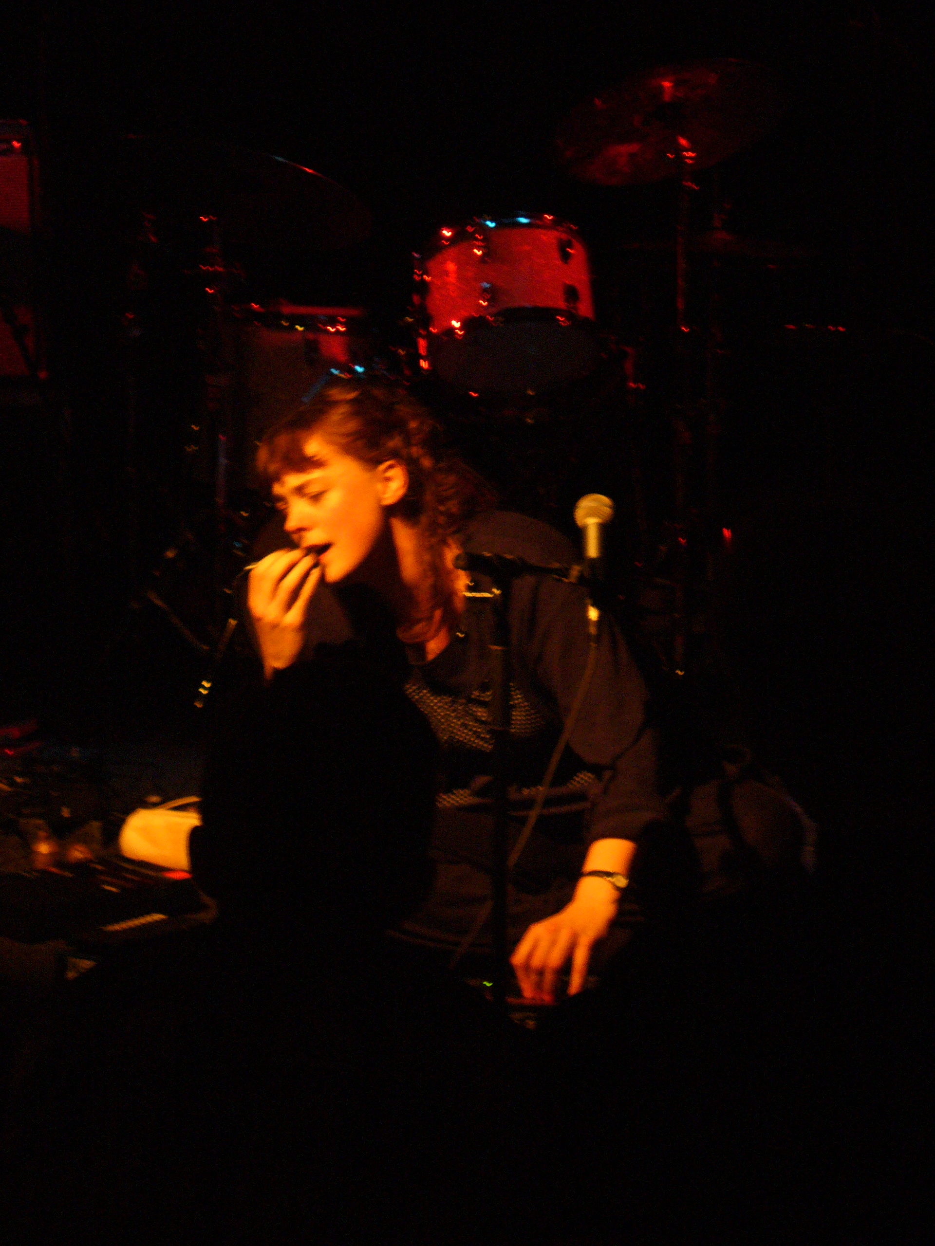 Mari Kvien Brunvoll at Bergen Jazz Club November 2012